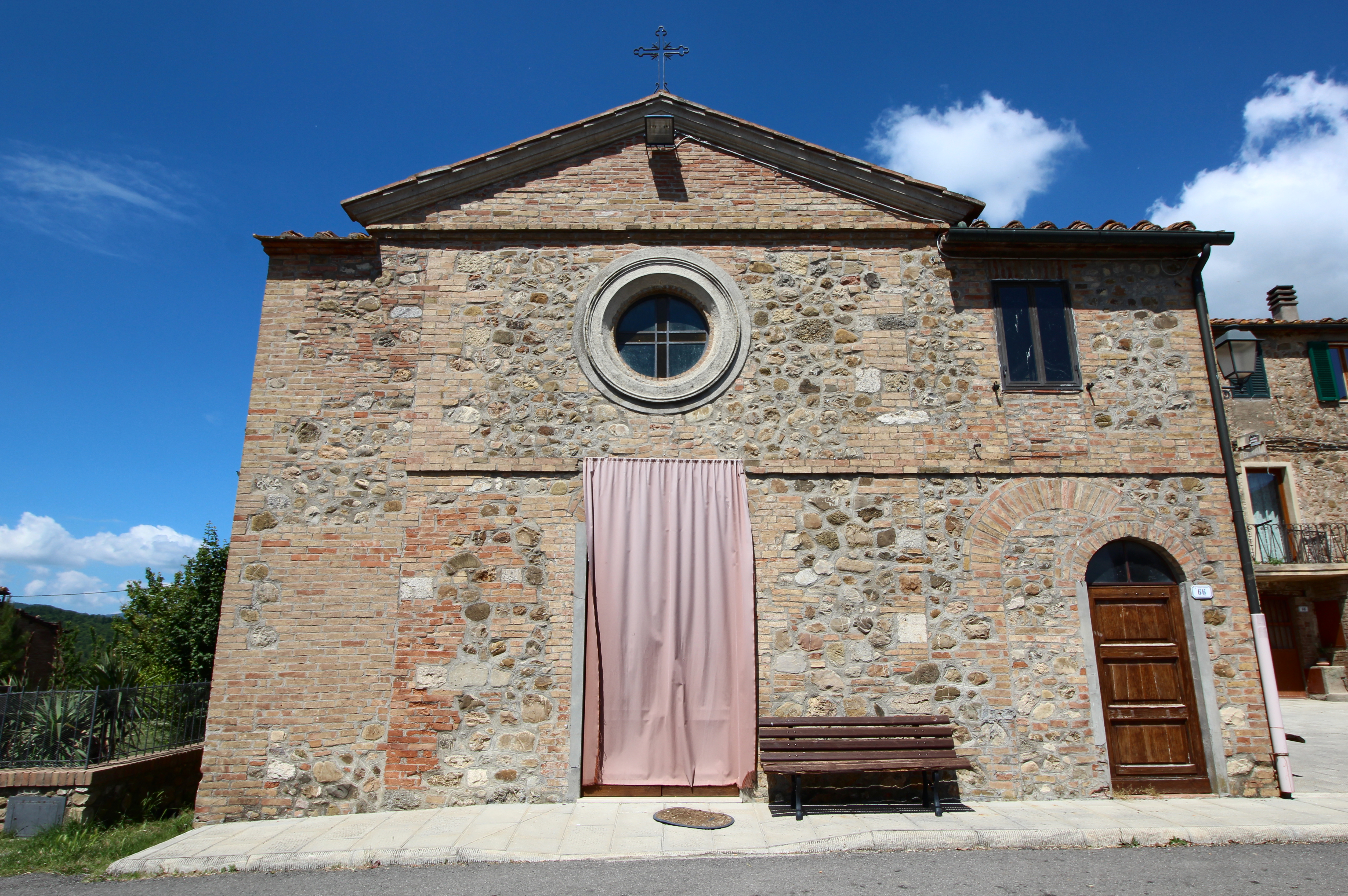 Church San Lorenzo, Frassini, hamlet of Chiusdino, Province of Siena, Tuscany, Italy